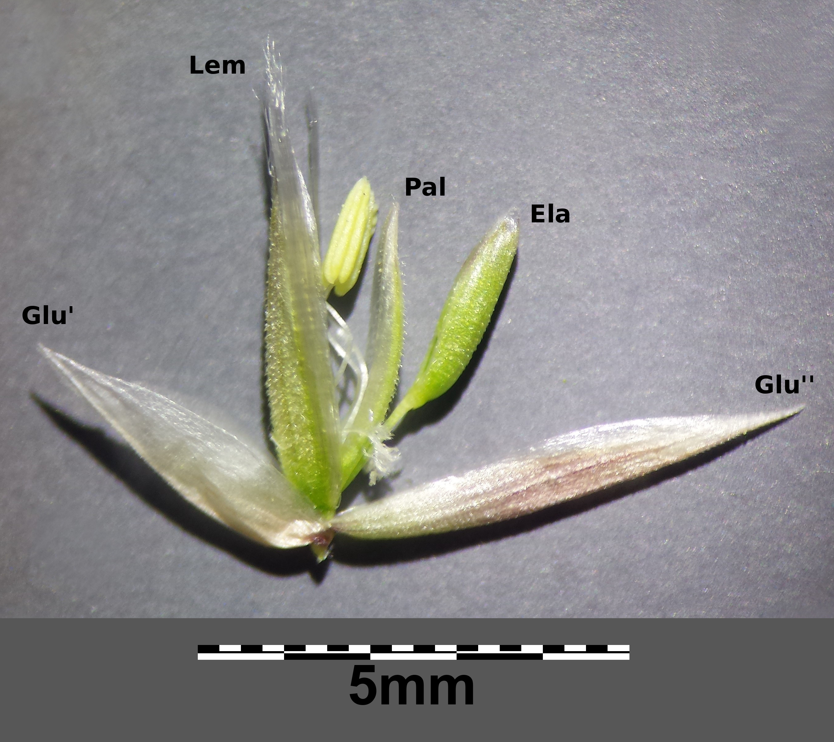 Spikelet Glu = Glumae Lem = Lemma Pal = Palea Ela = Elaiosome Taxonym: Melica transsilvanica (subsp. transsilvanica) ss Fischer et al. EfÖLS 2008 ISBN 978-3-85474-187-9 Location: "In der Hölle" near Wetzleinsdorf, district Korneuburg, Lower Austria - ca. 250 m a.s.l. Habitat: semi-dry grassland